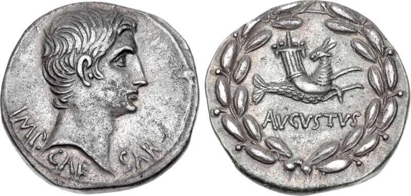 Augustus. 27 BC-AD 14. AR Cistophorus (25mm, 12.04 g, 12h). Ephesus mint. Struck circa 25-20 BC. IMP CAE SAR Bare head right AVGVSTVS Capricorn right, head left, bearing cornucopia on back; all within laurel wreath.